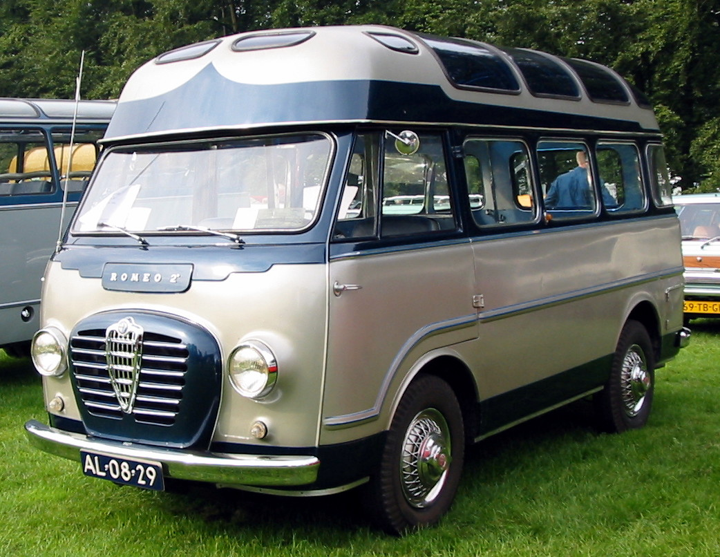 Alfa Romeo Romeo2